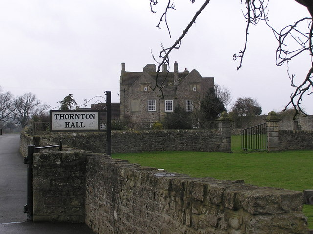 Thornton Hall , Staindrop Road Nr. Darlington. The oldest part of Thornton Hall are of 16 century date. Many changes and alterations have taken place, many windows have been added and some bricked up, the chimneys still retain their 16th century appearance, and there are remains of battlements.